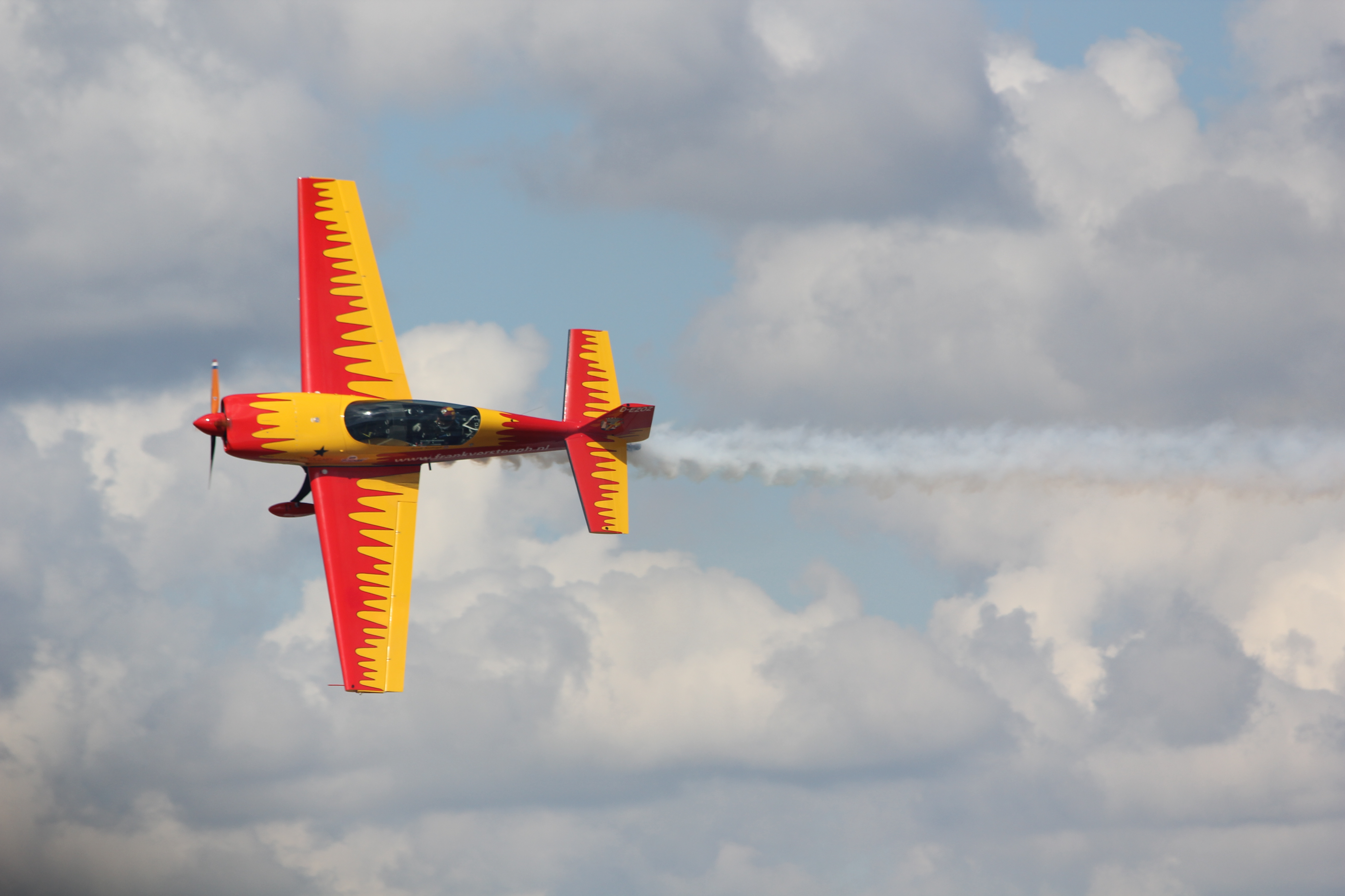 Sami Kontio Challenge air show pylon race first round. Frank Versteegh with Extra 300L aircraft.